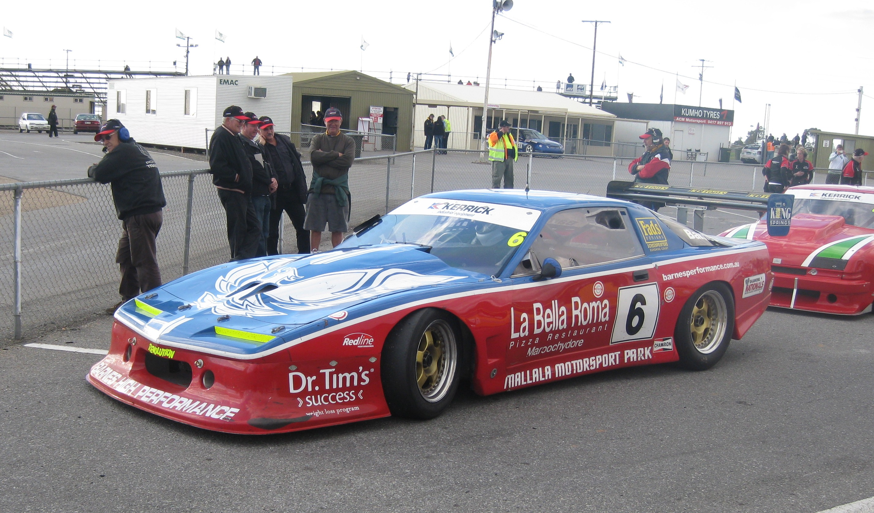 The Pontiac Firebird of Jeff Barnes, 2011 Kerrick Sports Sedan Series, Mallala Motor Sport Park.